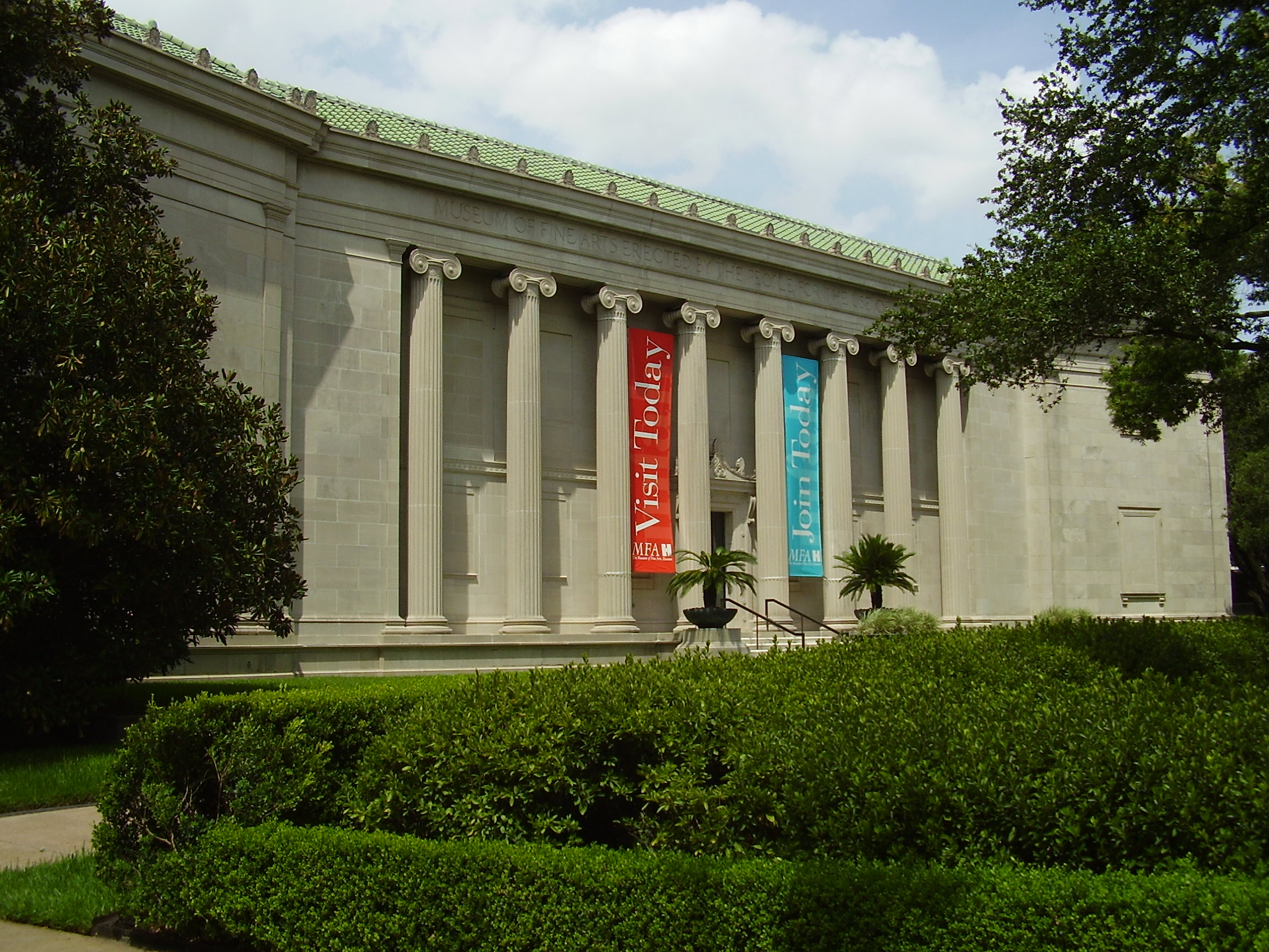 Watkin Building, Museum of Fine Arts, Houston